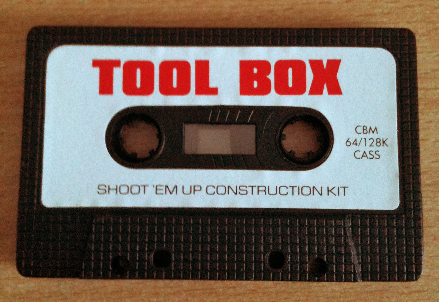 Shootém up construction set Tape for Commodore 64/128